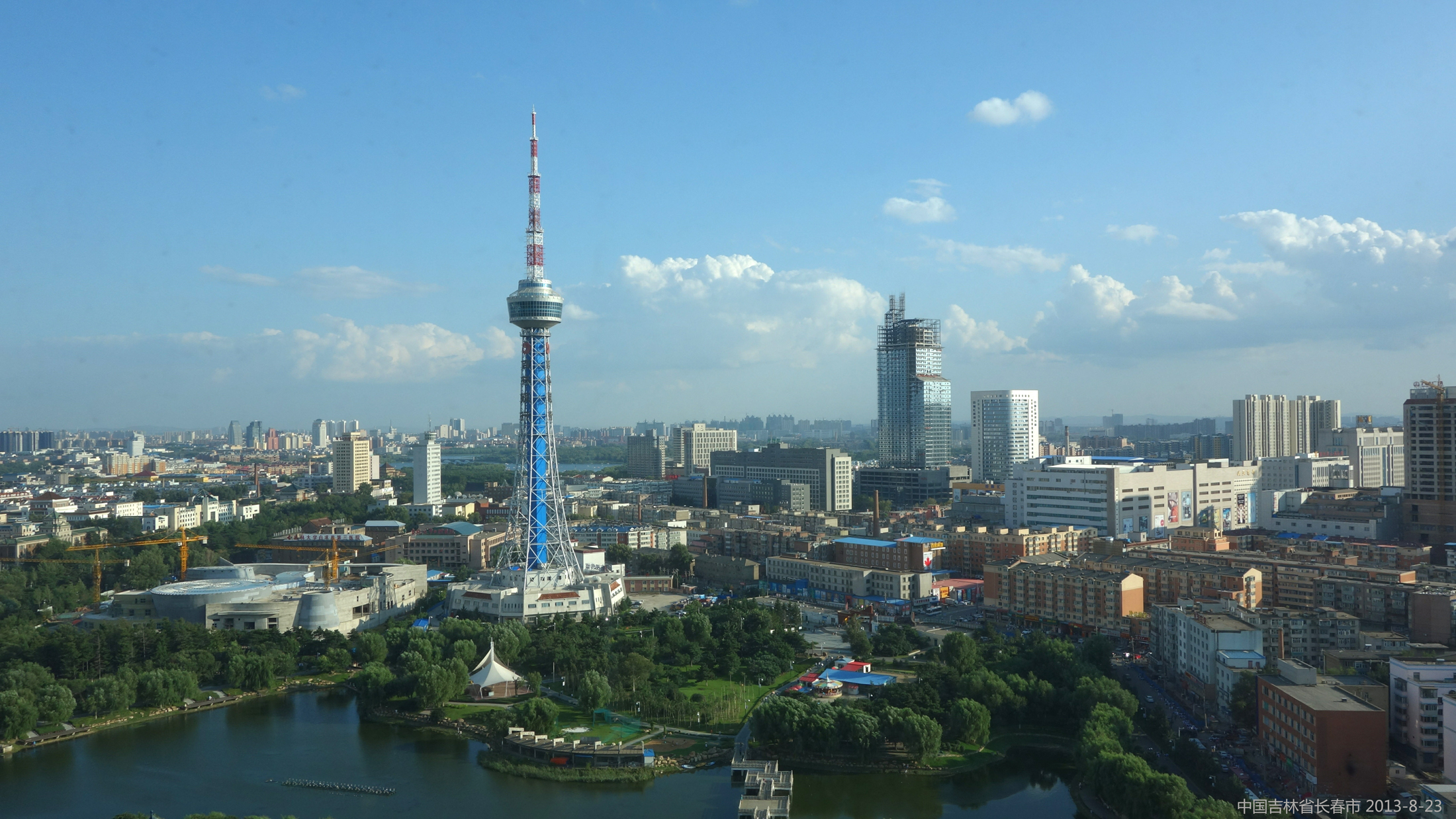 南 south